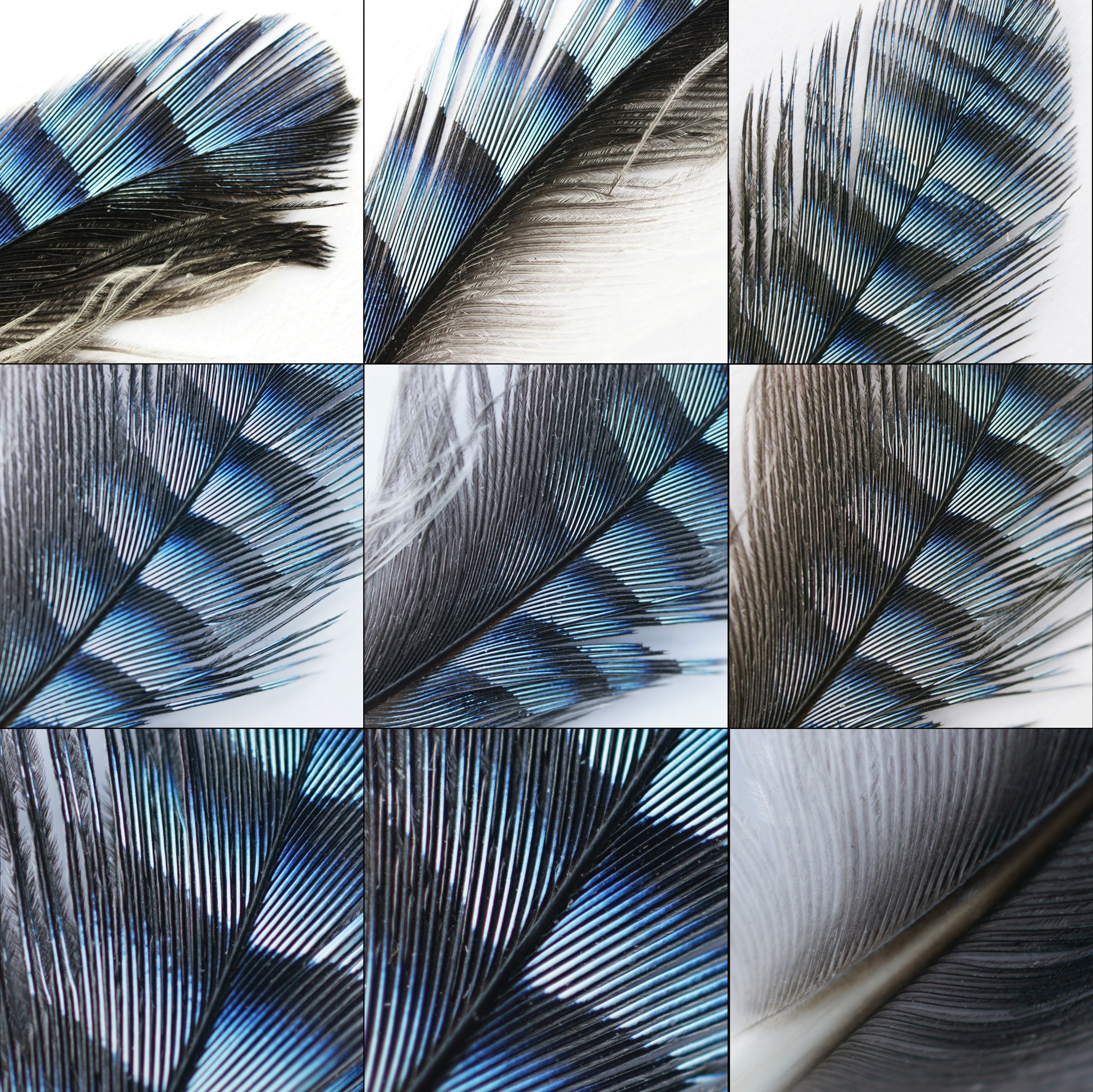 Feather of Eurasian Jay.